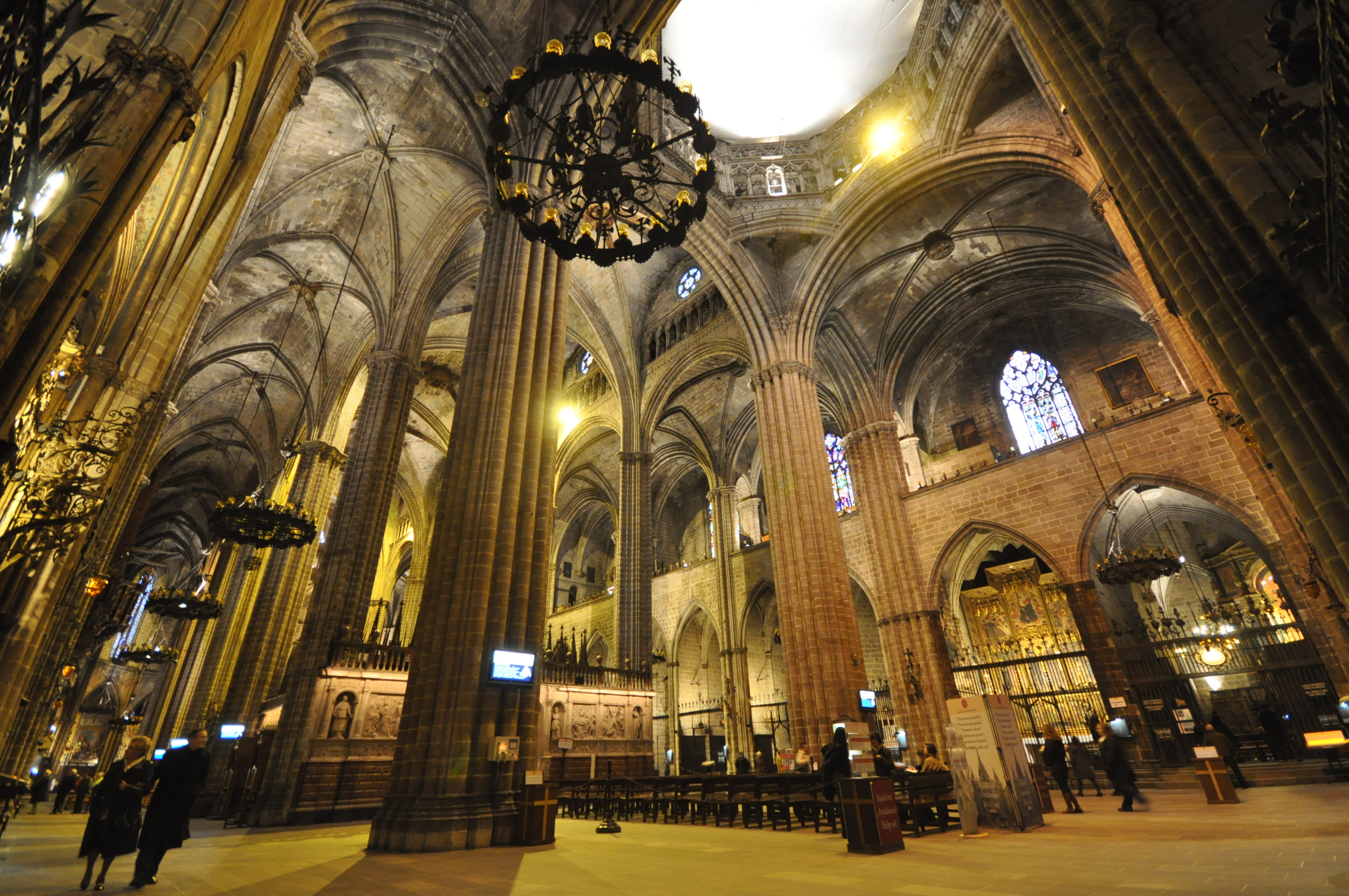 Cathedral of Santa Eulalia